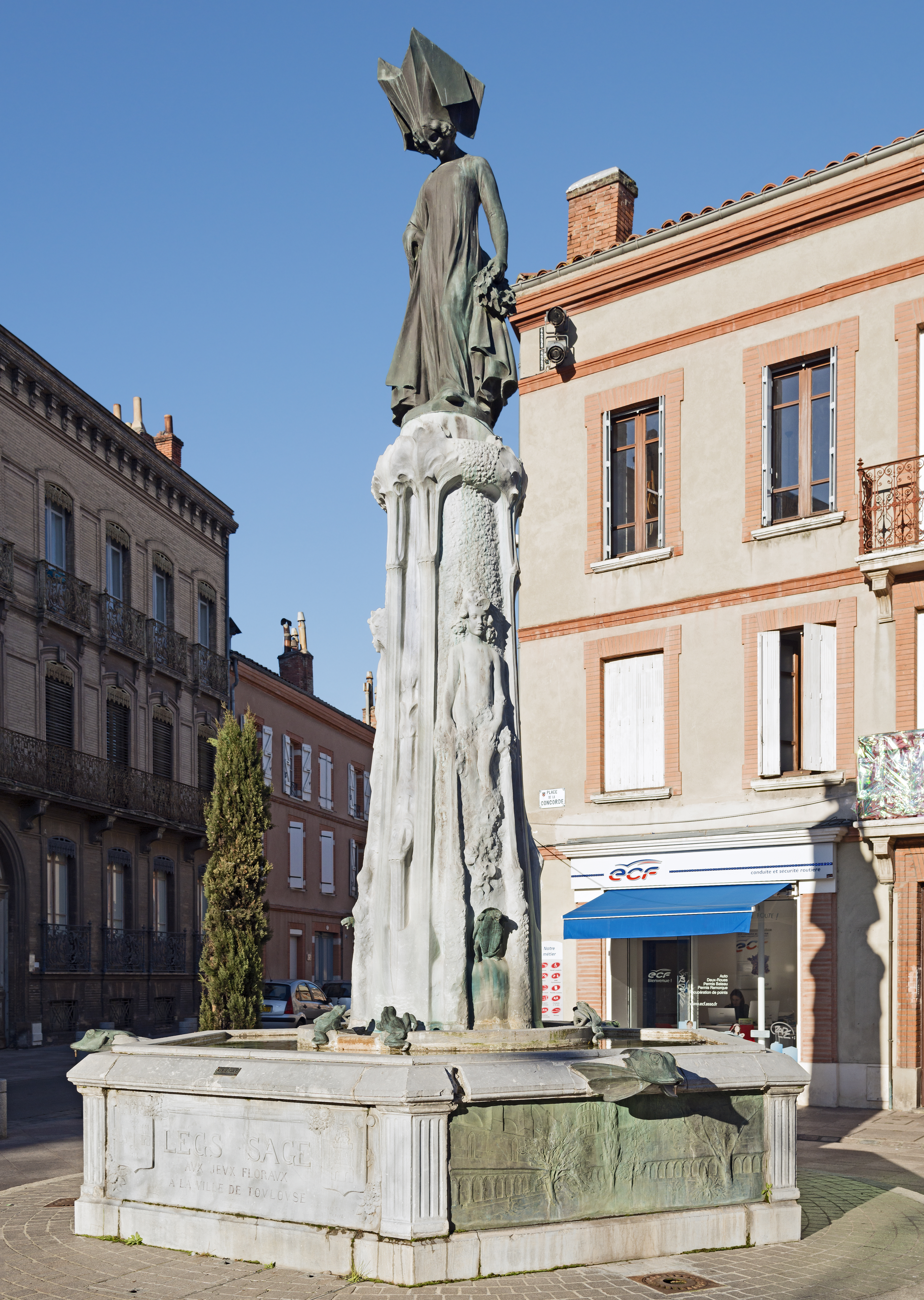 The fountain Clemence Isaure or "Roman Poetry" by Léo Laporte-Blairsy in Toulouse